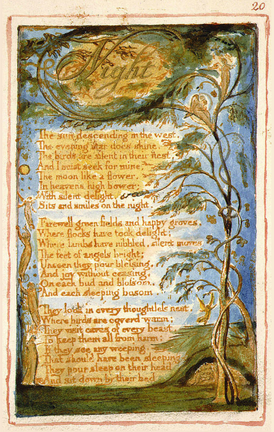 Songs of Innocence and of Experience, object 20 (Bentley 20, Erdman 20, Keynes 20) "Night"